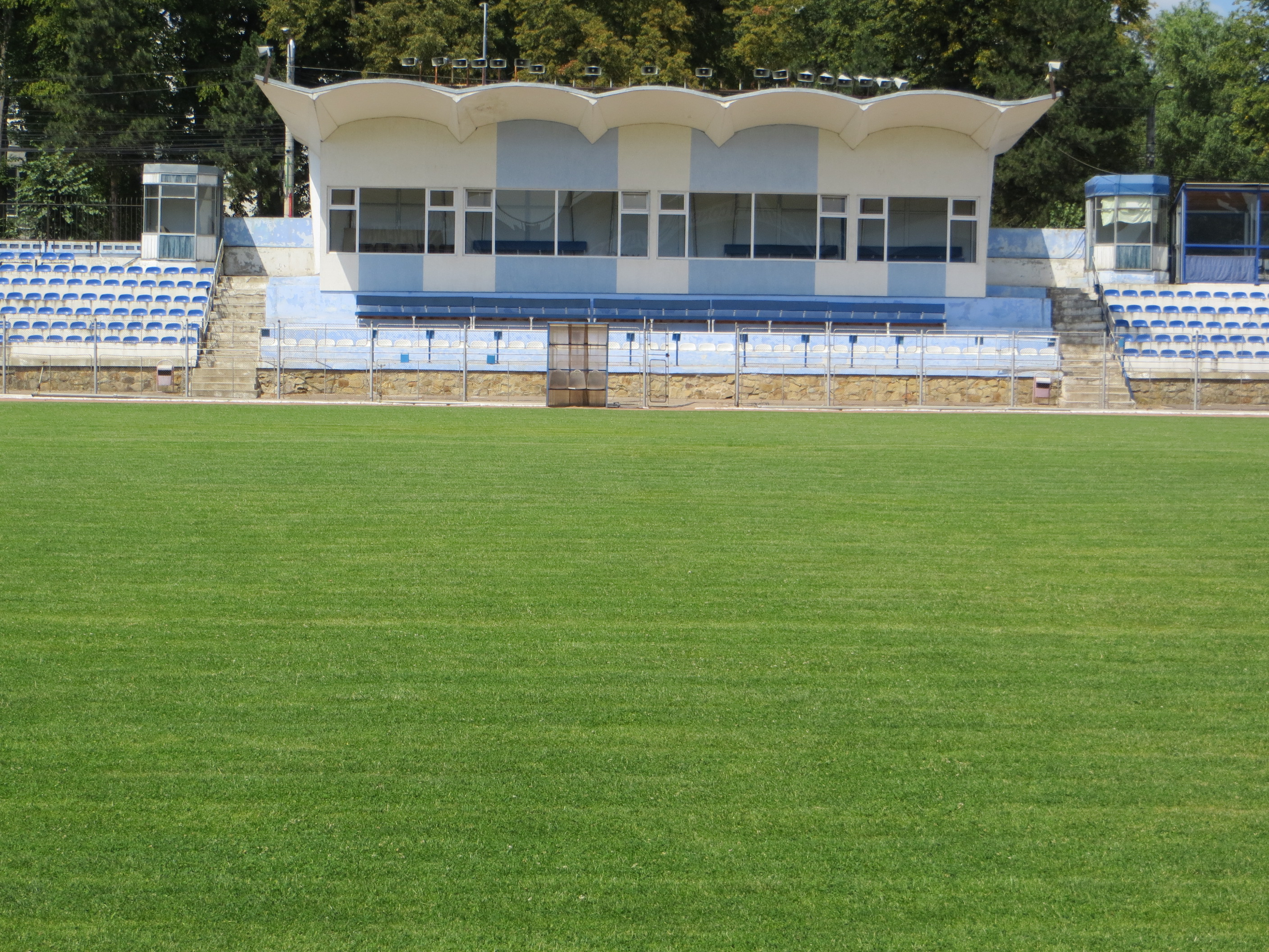 Areni Stadium in Suceava.